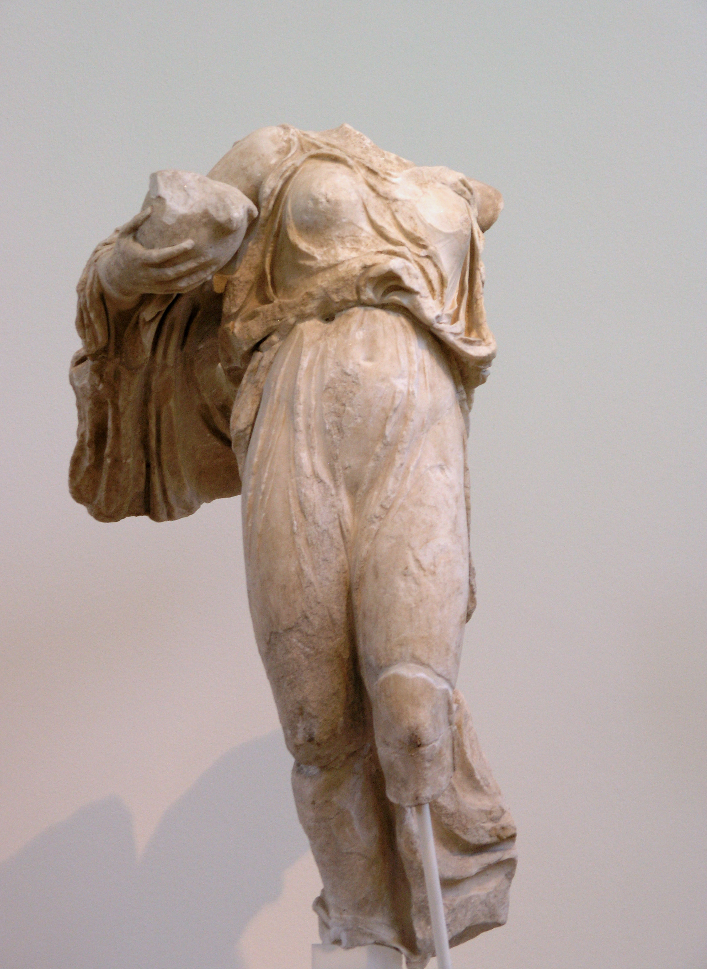 Statue of Nike. The statue was the central akroterion on the west pediment of the temple of Asklepios. Nike is depicted flying with her dress billowing in the wind behind her. In her right hand she holds a partridge, a symbol of the healing power of Asklepios.